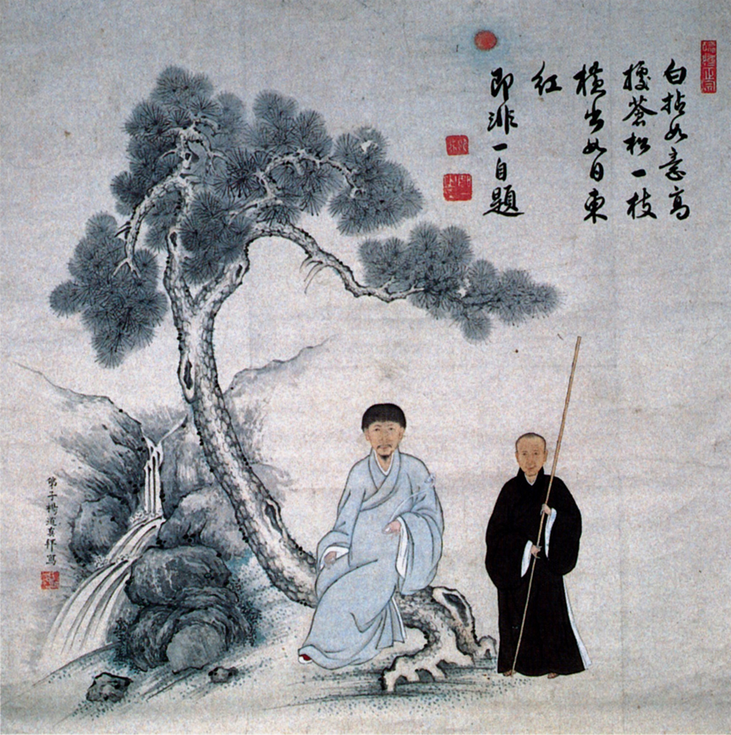 Portrait of Jifei and Baigan,Inscription by Jifei,color on paper,hanging scroll,Fukuju-ji Temple,Fukuoka Pref